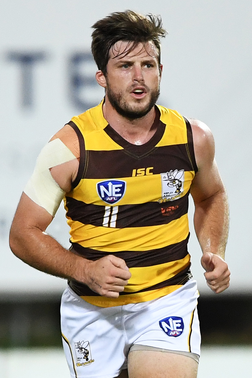 during the 2019 NEAFL round 7 match between NT Thunder and Aspley at TIO Stadium on Saturday, 18 May 2019 in Darwin, Northern Territory.